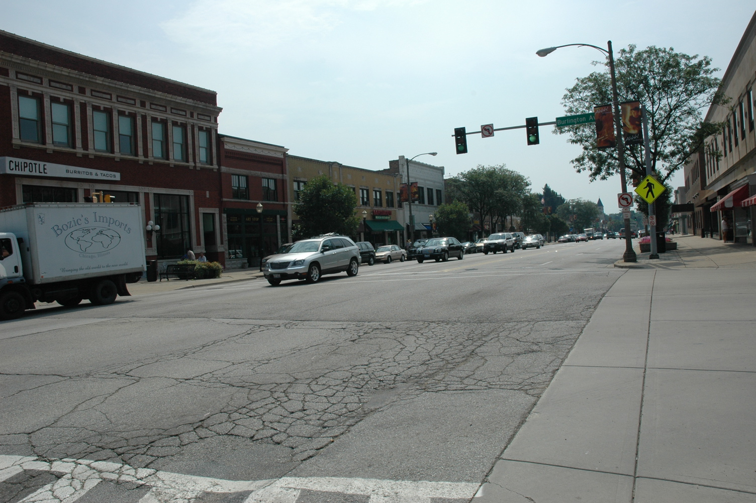 Downtown La Grange, Illinois. Corner of S. La Grange Blvd. and W. Burlington Ave., looking south.